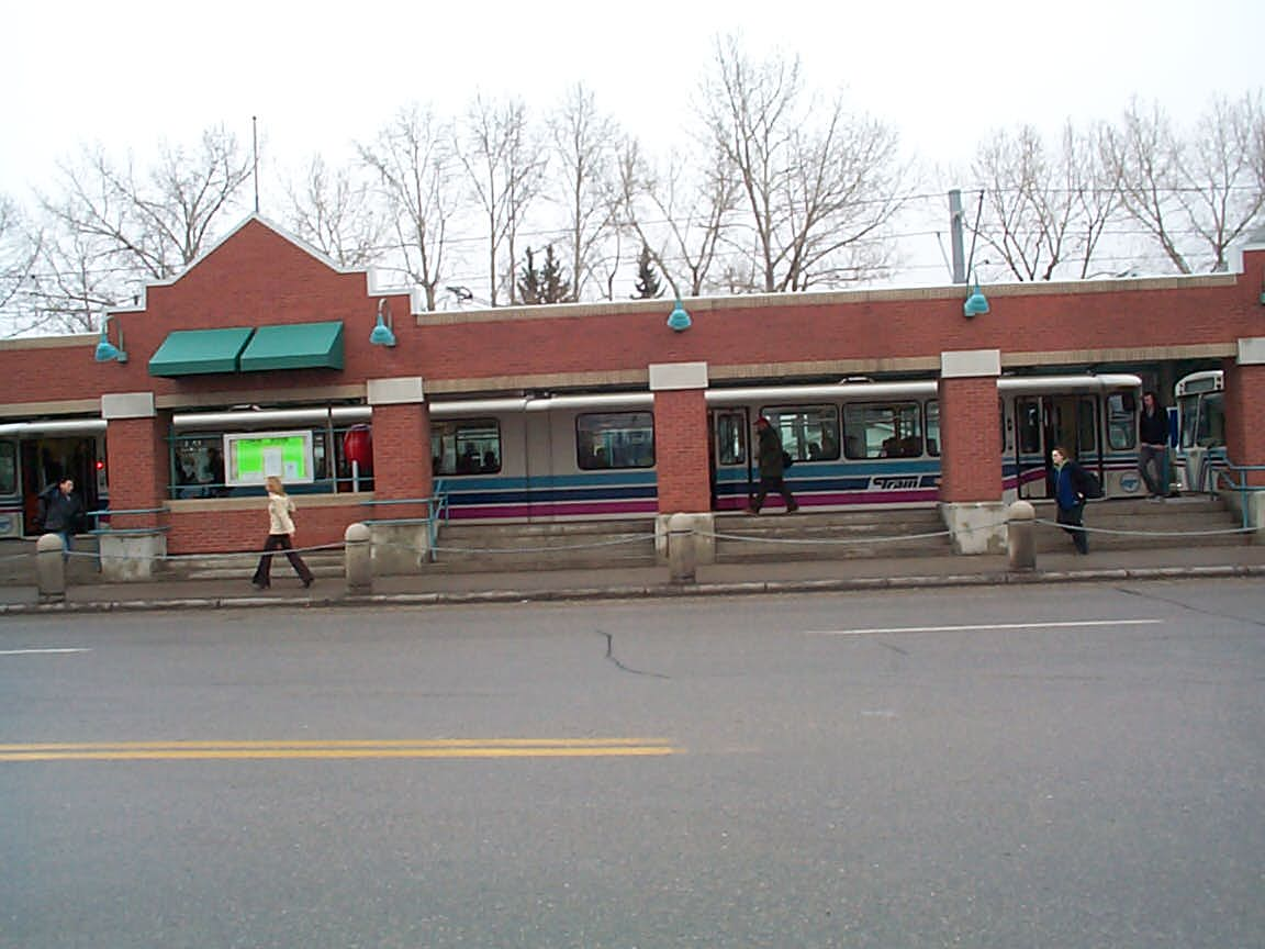 Wikipedia:Lions Park (C-Train) in Calgary, Alberta, Canada. Taken from opposite side of 14th Avenue NW.